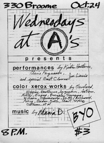 poster for music performance and exibition at Arleen Schloss open space "Wednesdays at As 24 Oct 1979 Mania D and SAMO©